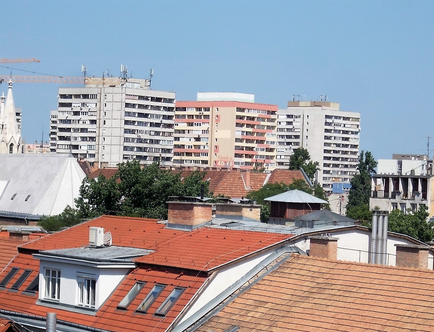 View from a four storey dwelling building to the three ten-storey Plattenbau buildings at Tömő street. The four storey dwelling building has two staircases and Art Nouveau elements. Planned by Lajos Reisenleitner and Emil Lukoviczky, constroted by József Mann and Son, Built in 1912. - 12 Ferenc square, 9th district of Budapest.